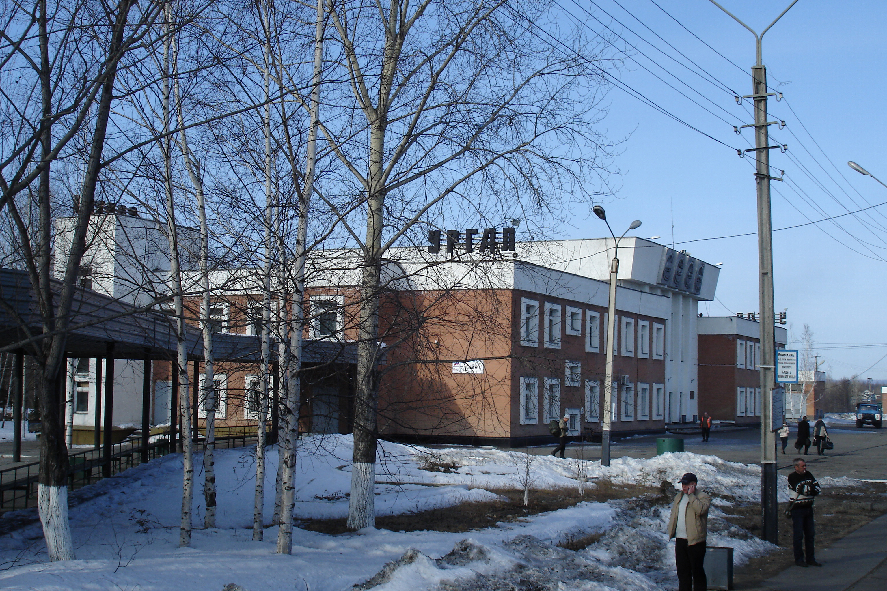 Novy Urgal - urban-type settlement in Verkhnebureinsky District of Khabarovsk Krai, Russia. Railway station Novy Urgal Raz'ezd 3